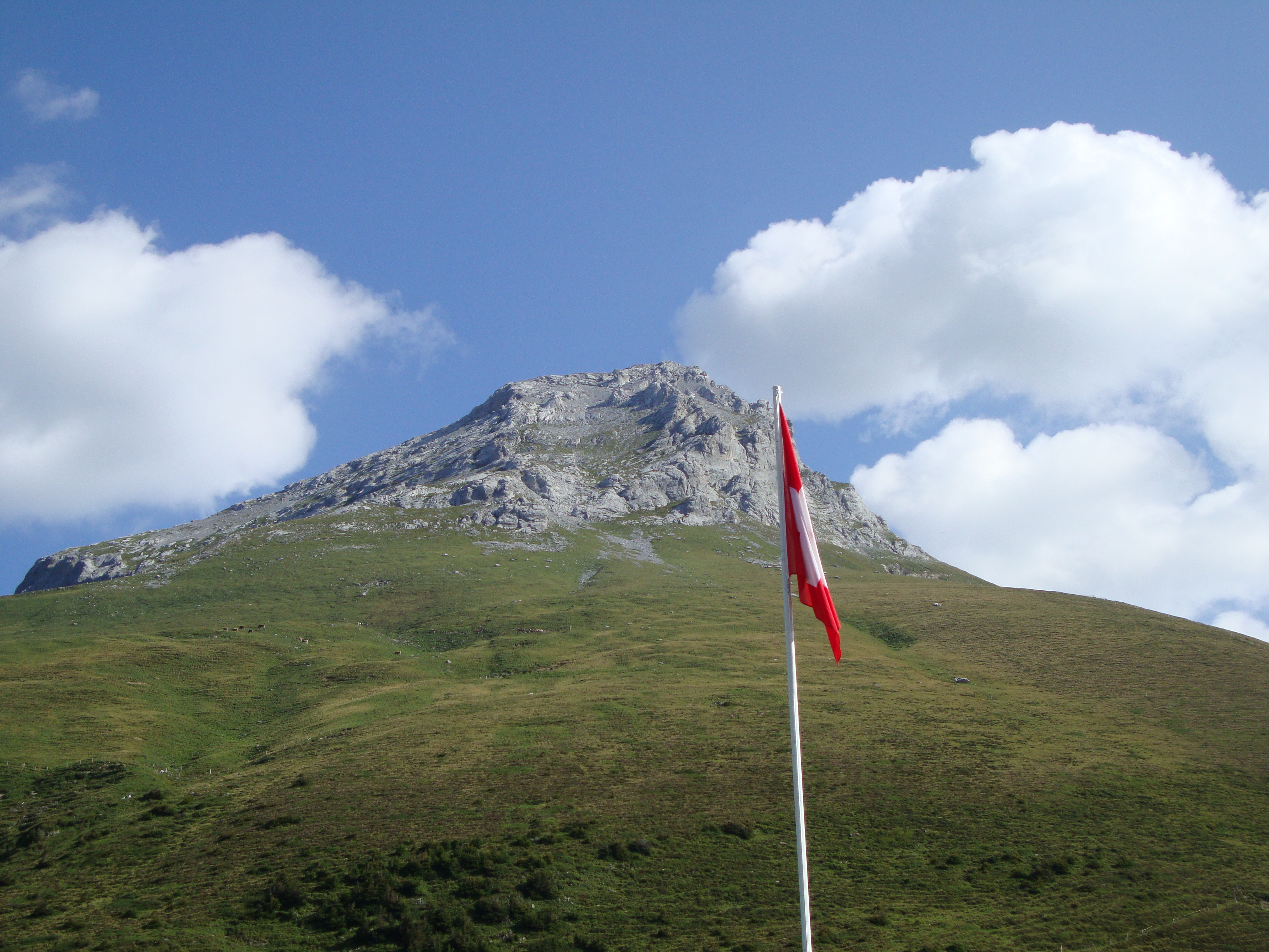 The Wissberg seen from Fürenalp